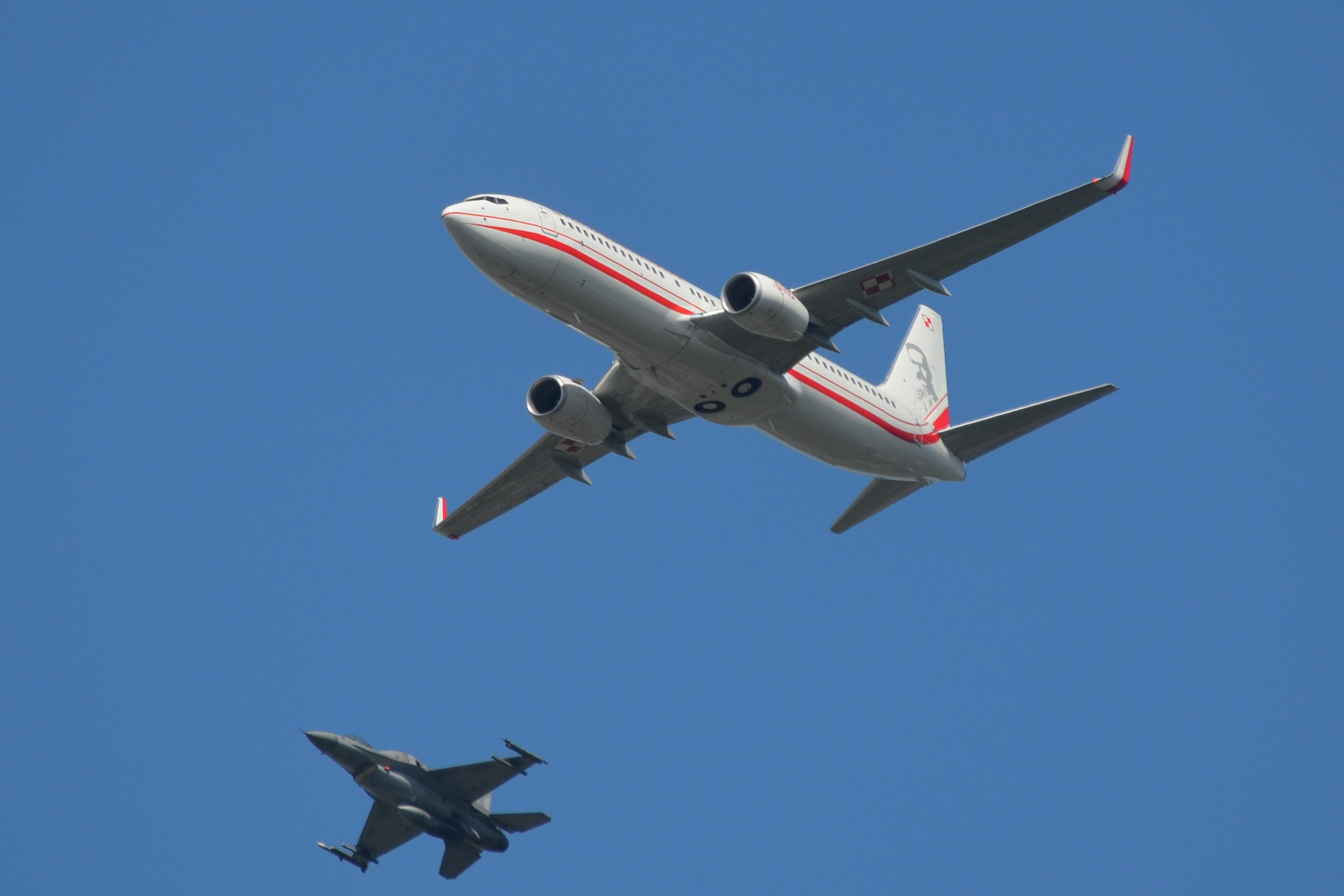 Boeing 737-86X 0110 "Piłsudski"